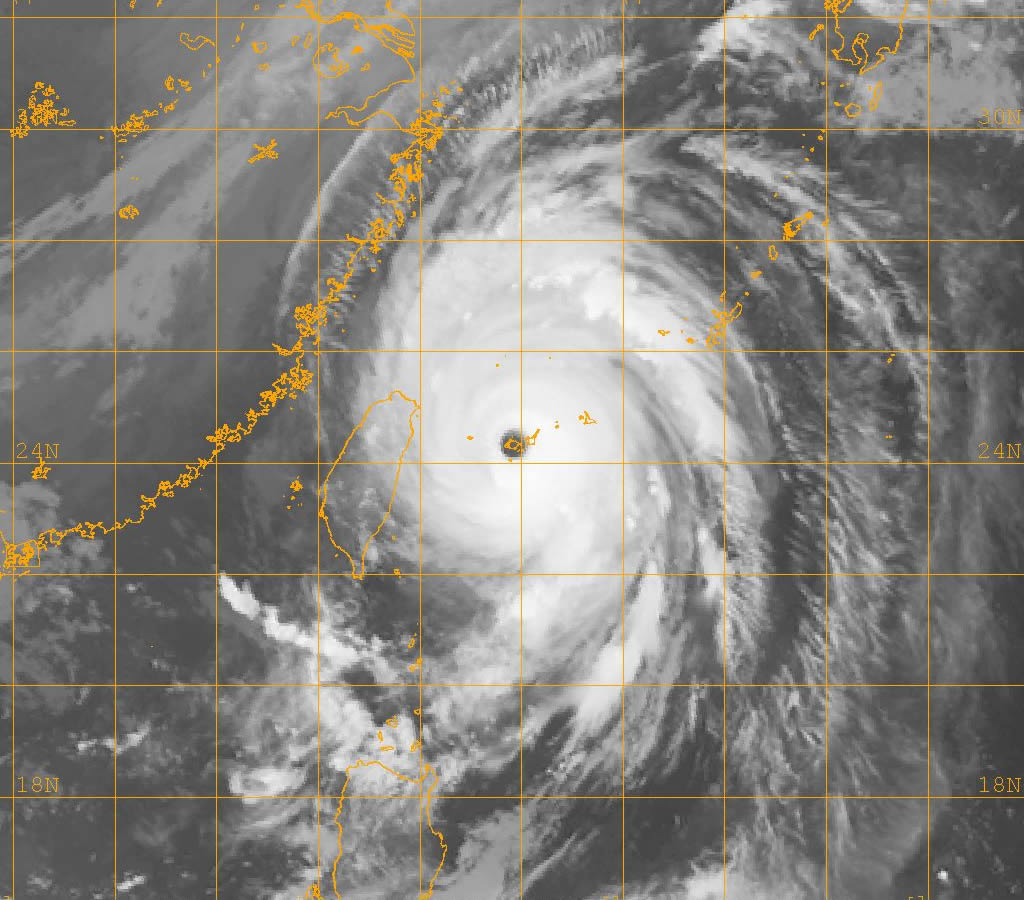 Typhoon Shanshan, as a 120-knot Category 4 typhoon according to the JTWC, while over Iriomote.